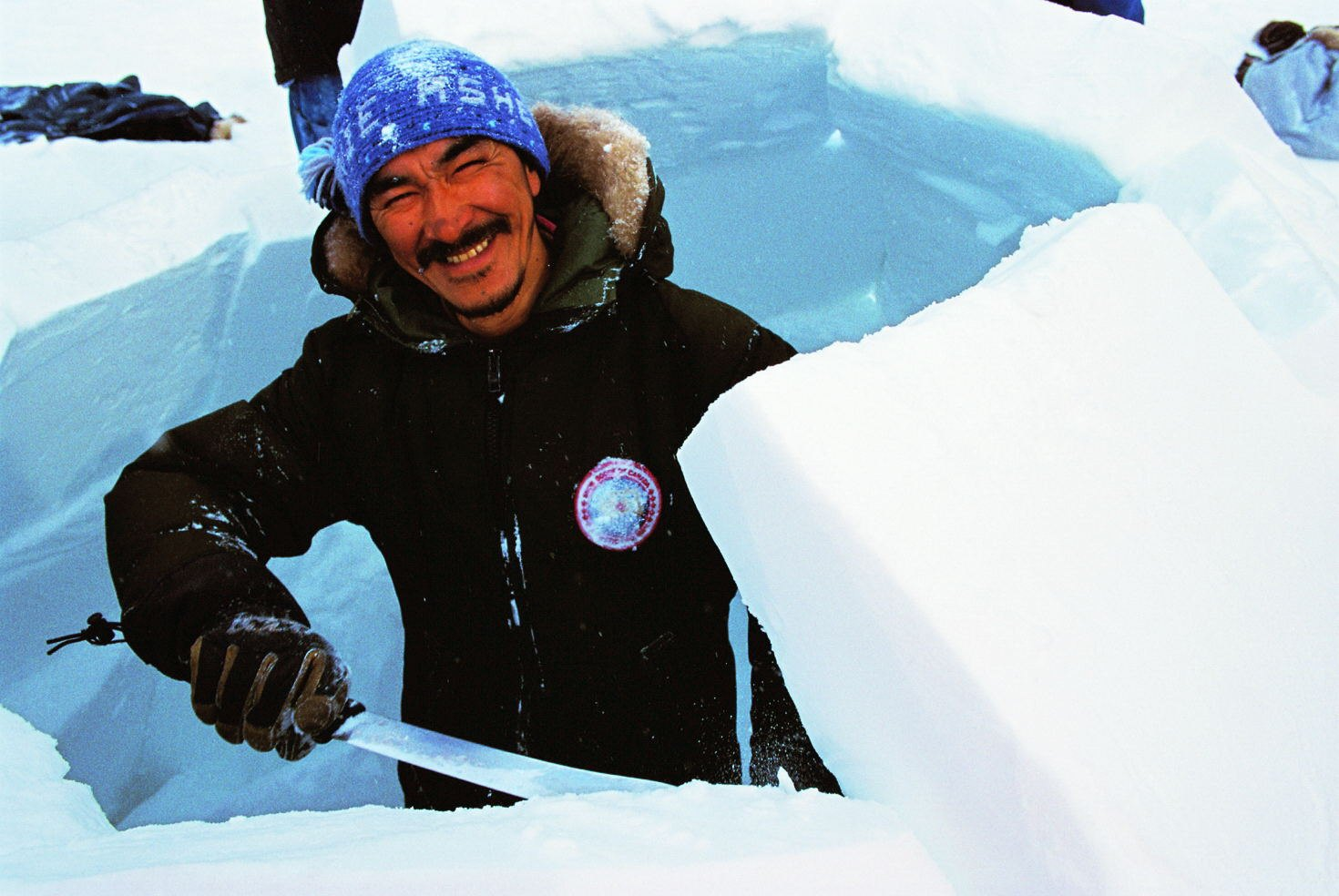 Building an iglu in Cape Dorset (southern region of Baffin Island)